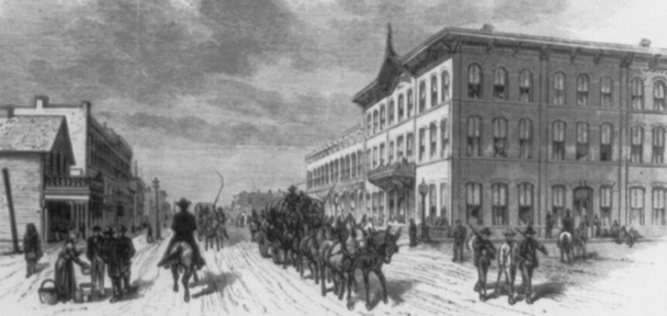 Cartoon depicting Cheyenne, Wyoming